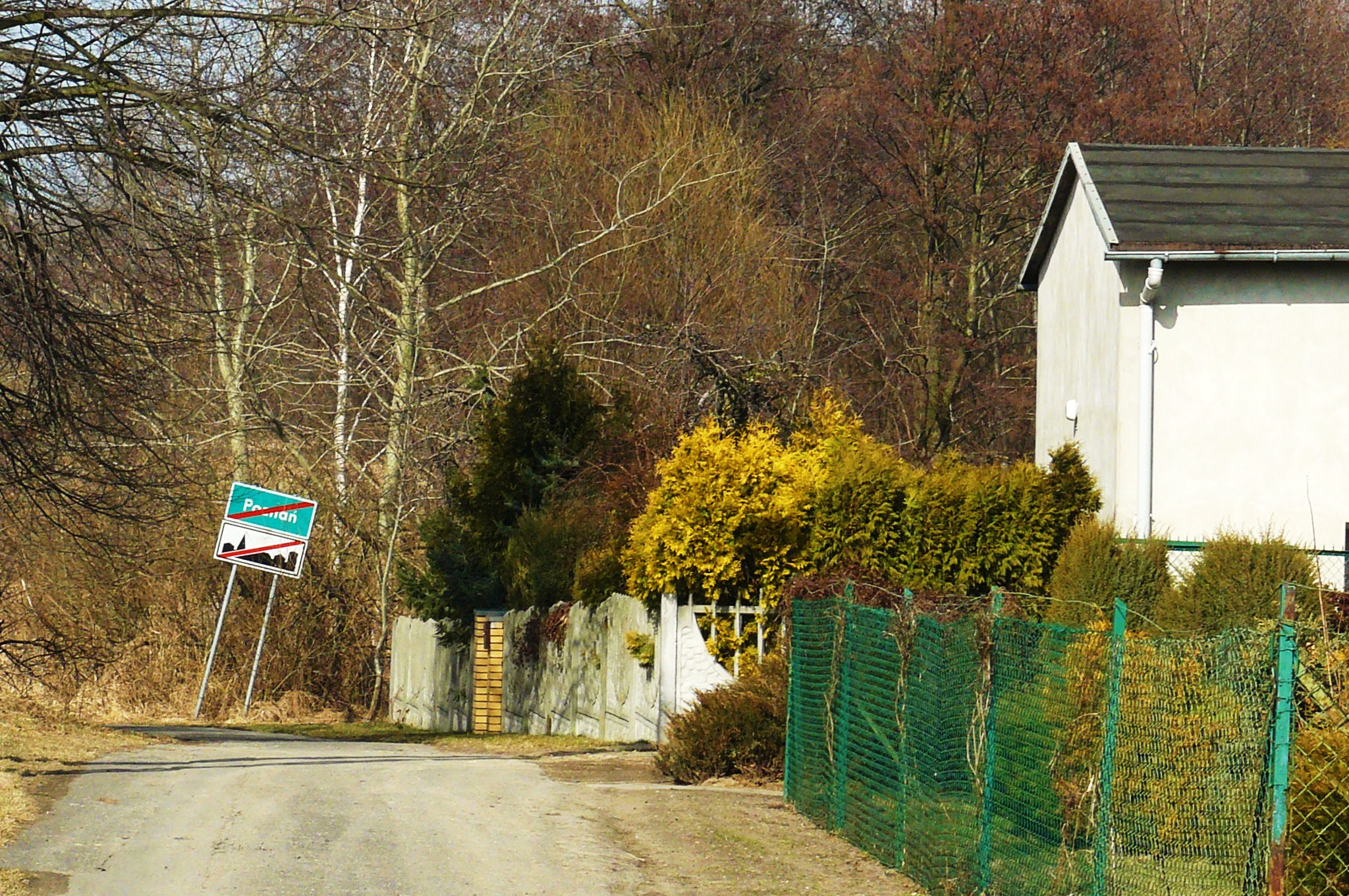 Slodynska Street, Poznan - Psarskie District.